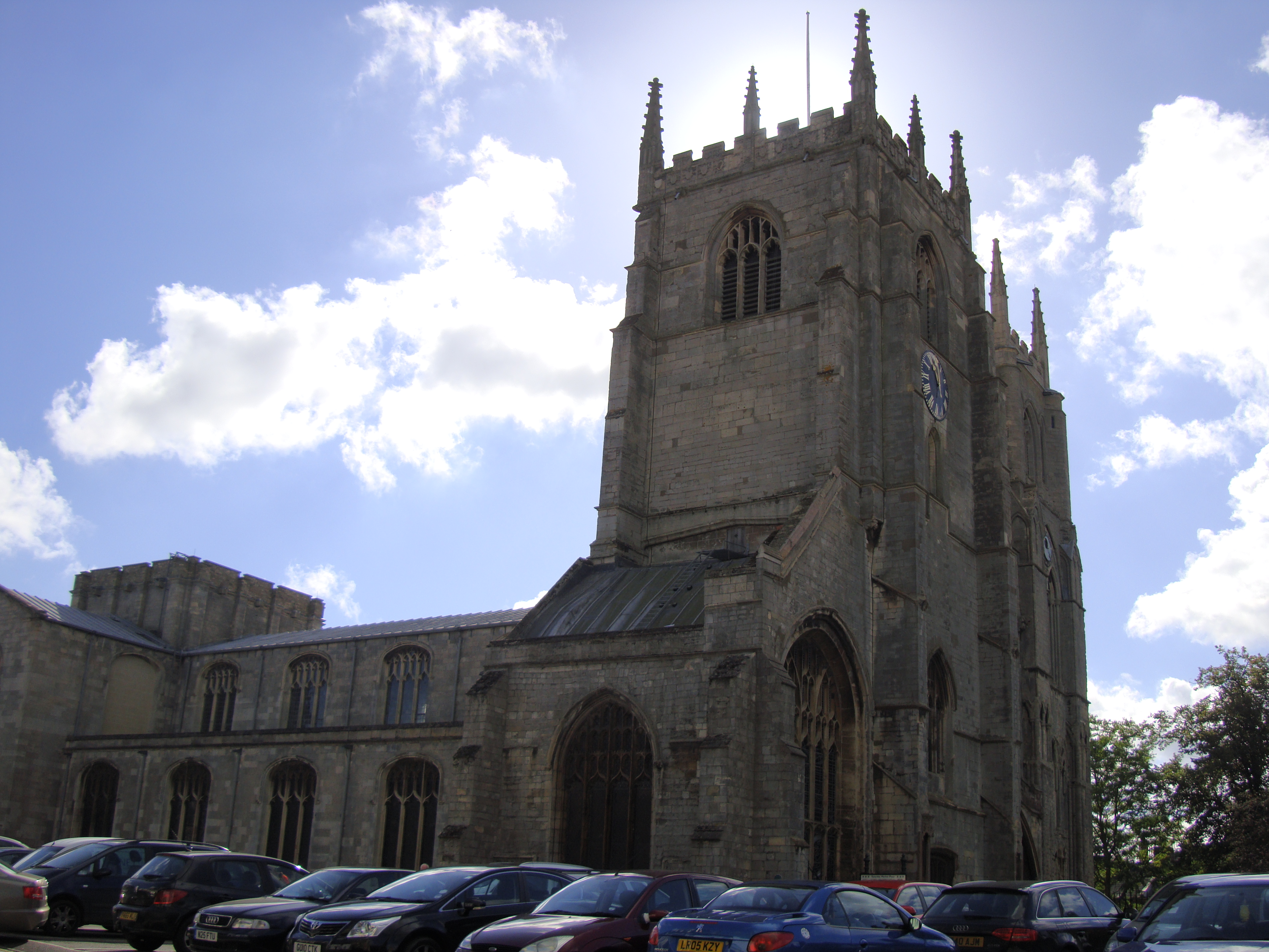 Photograph of King's Lynn Minster, Norfolk, England